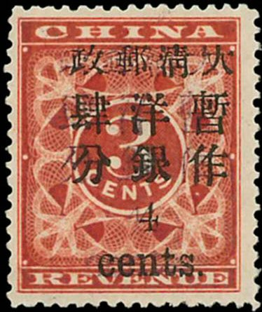 Red 7